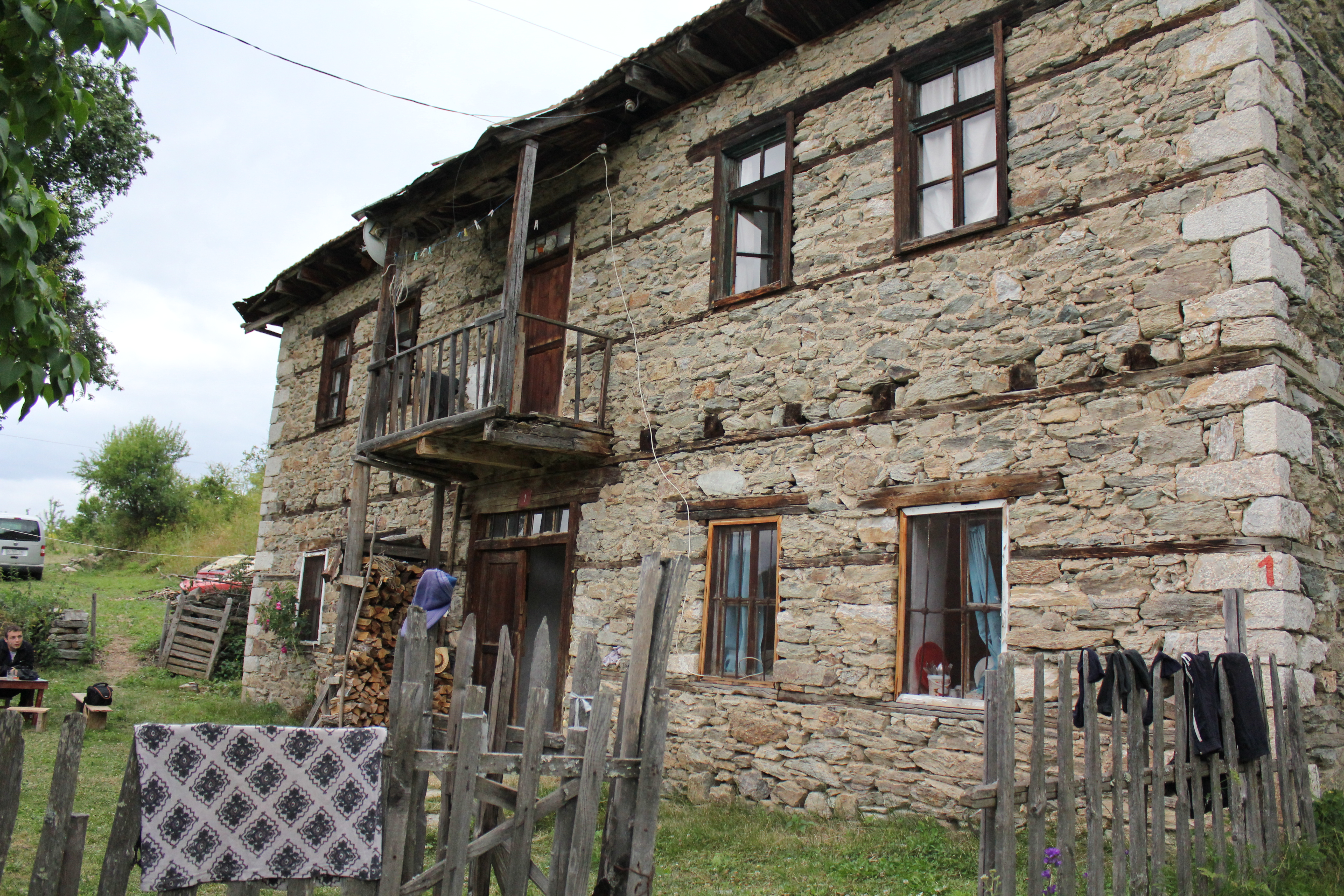 Old house in Krakornica 2, Macedonia.